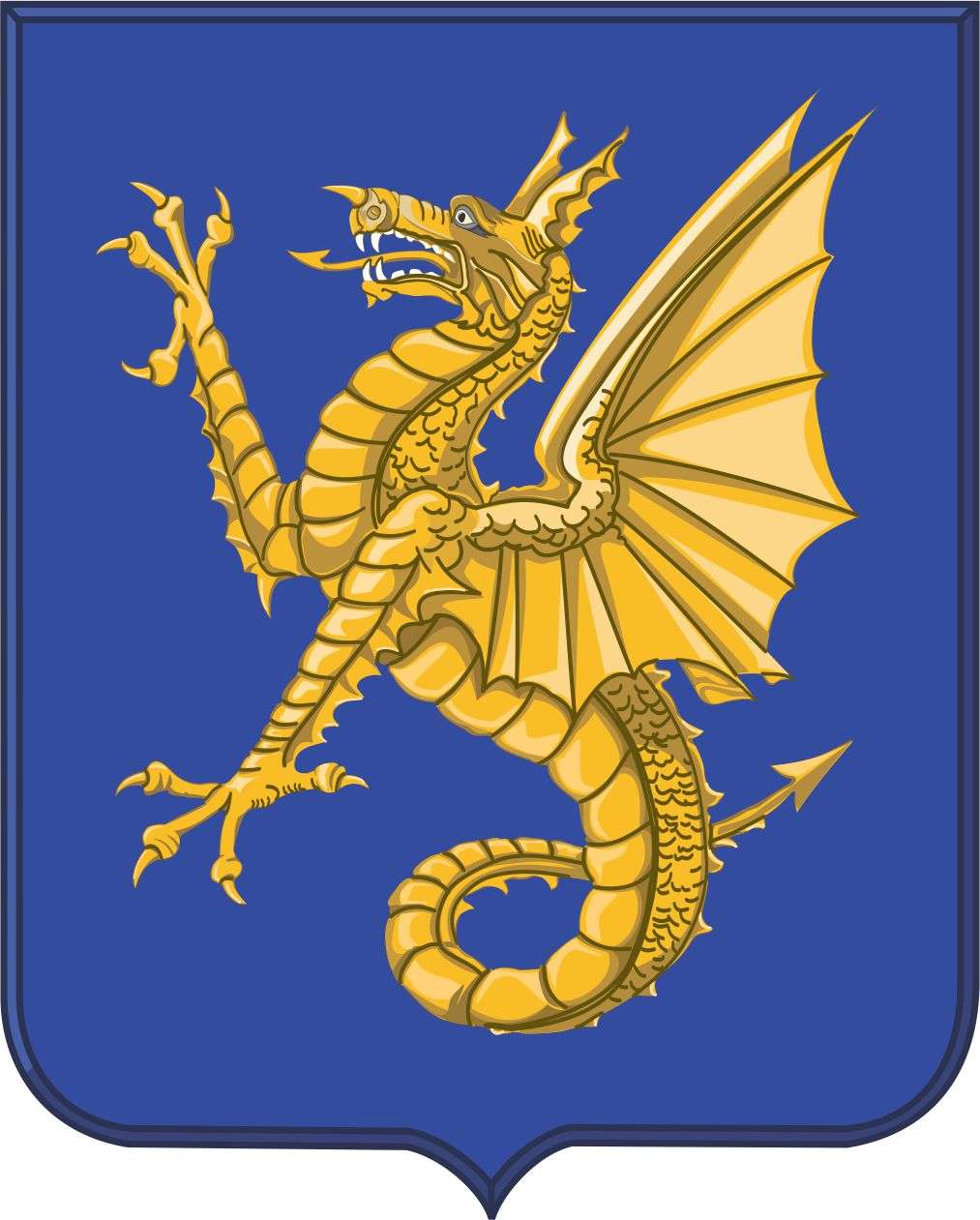 69th Infantry Regiment coat of arms, (Federal)